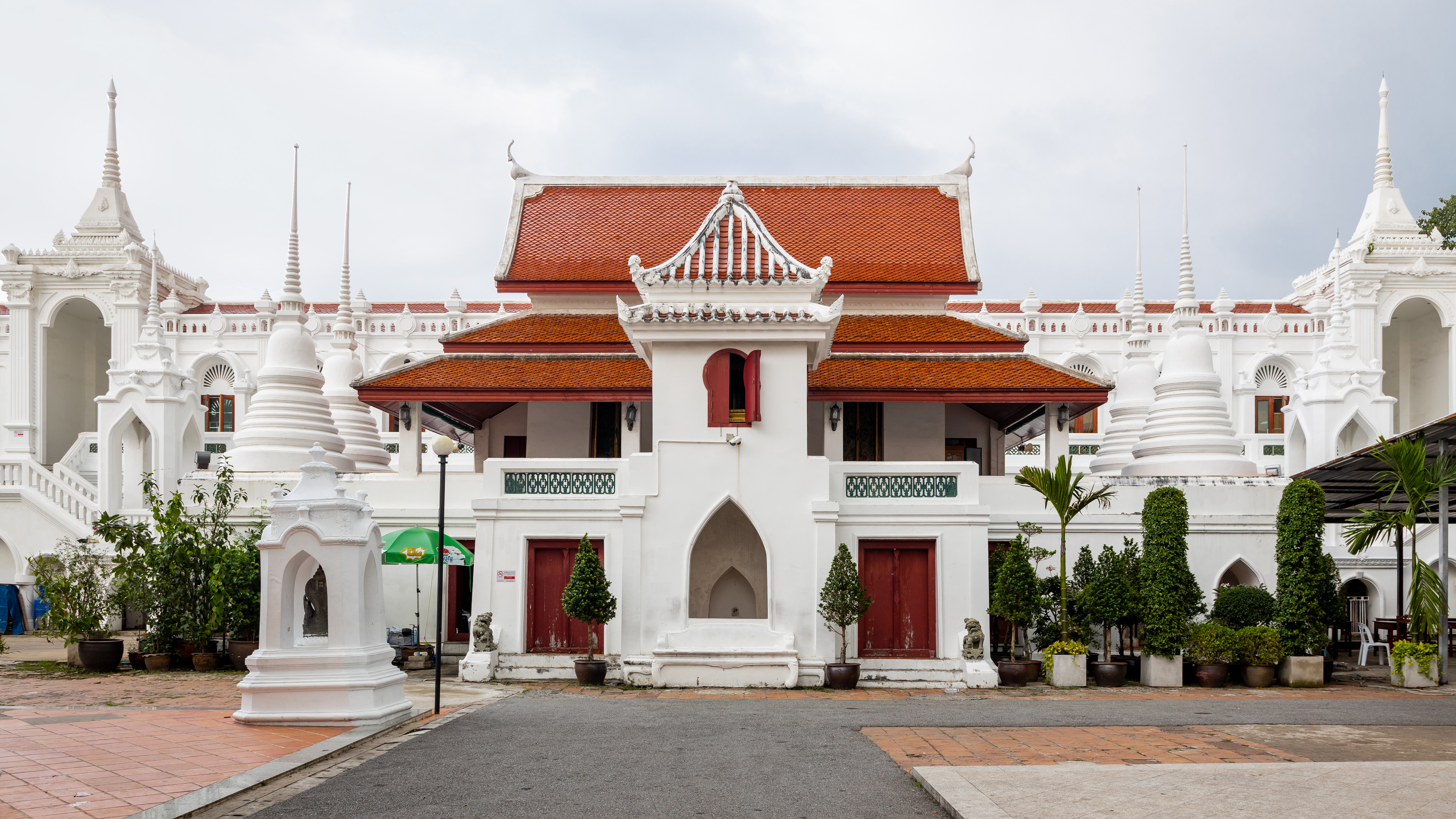 Wat Moli Lokayaram, Bangkok, Thailand.